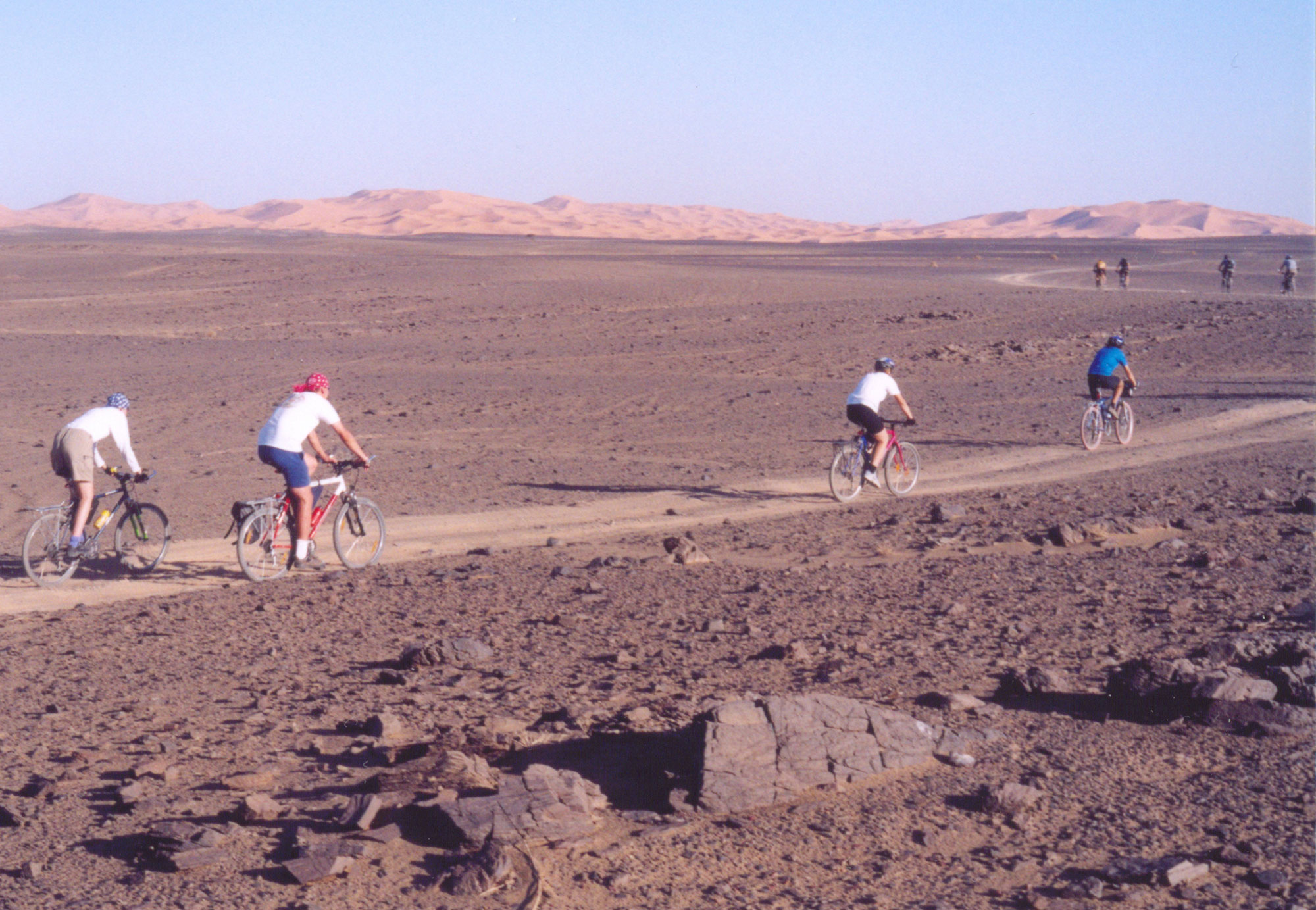 "Cyclists crossing hamada, approaching Erg Chebbi sand dunes, Morocco"